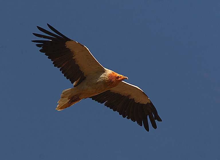 Egyptian vulture in flight, Ramanagara, Karnataka. This photo was uploaded to Flickr under a valid CC license by the original photographer. I cropped out the watermarked borders using jpegcrop before uploading it. As a derivative work, this should fall under the same license ( cc-by-2.0 ) as the original.